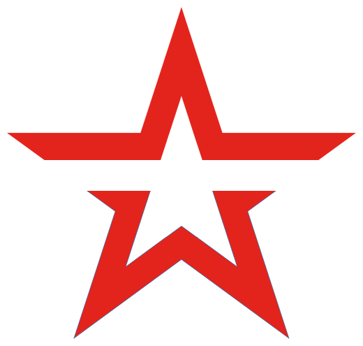 Armed Forces of the Russian Federation(2015).